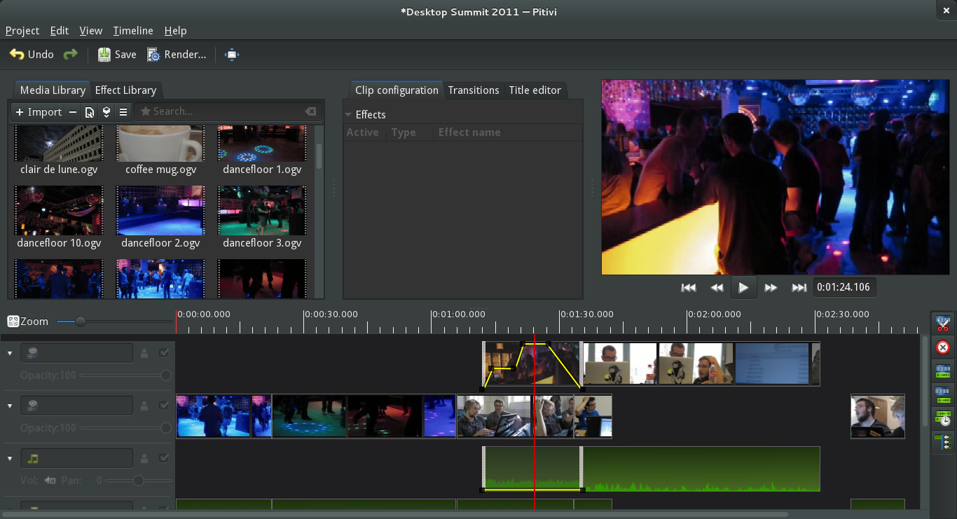 Screenshot of the Pitivi video editor